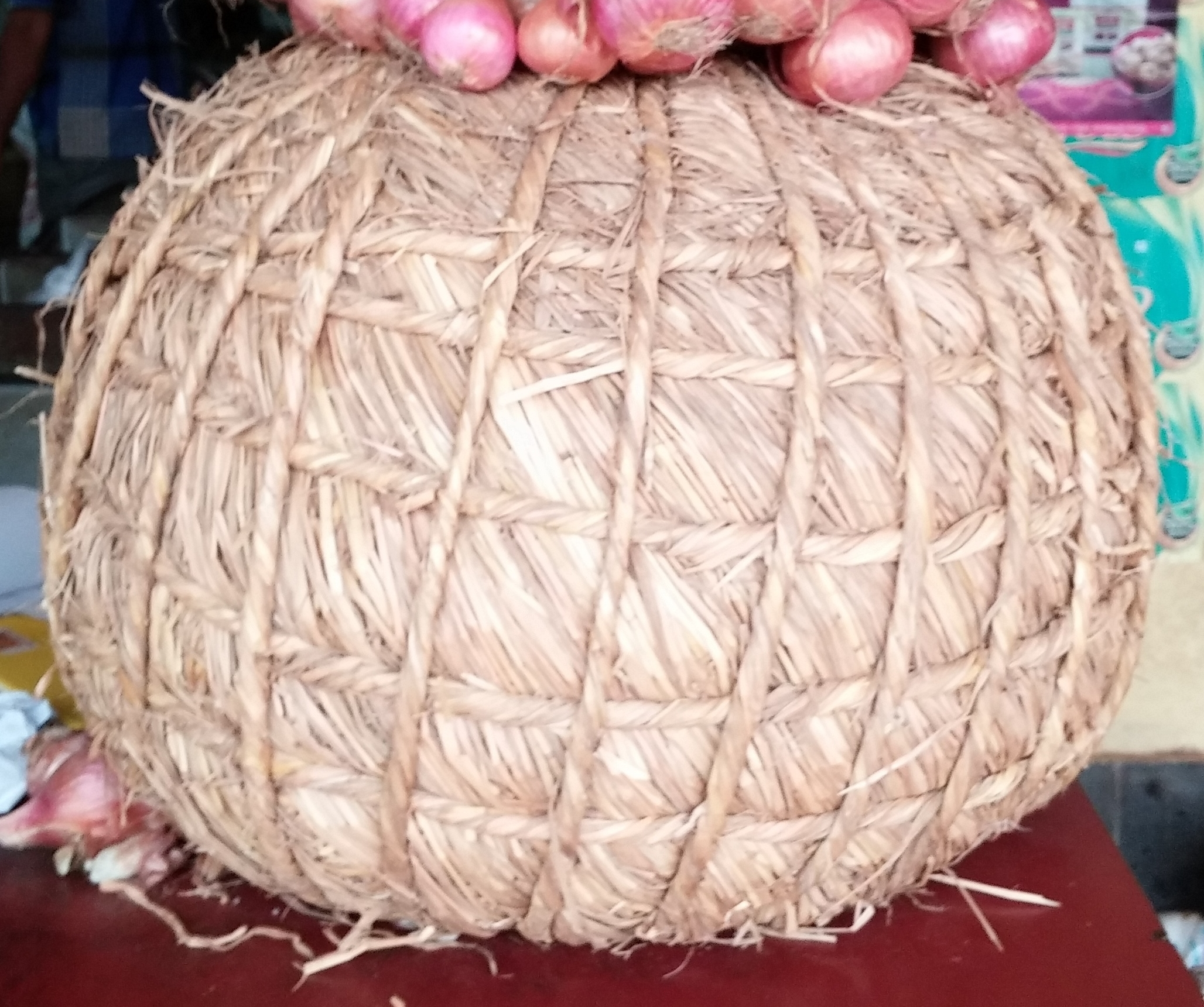 Akkimudi - form of packaging rice using grass